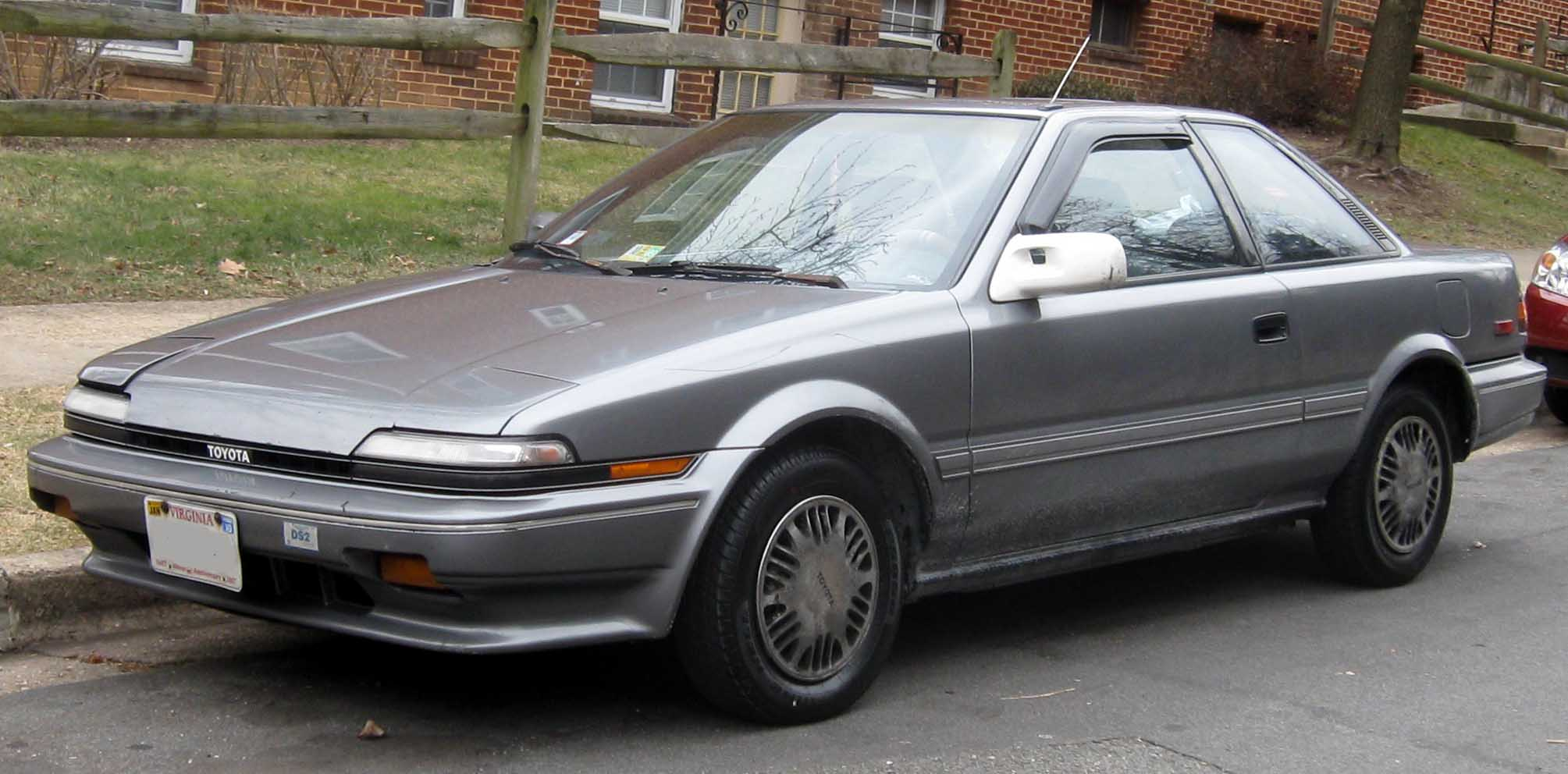 Toyota Corolla Coupe SR5 (AE92), photographed in Alexandria, Virginia, USA.